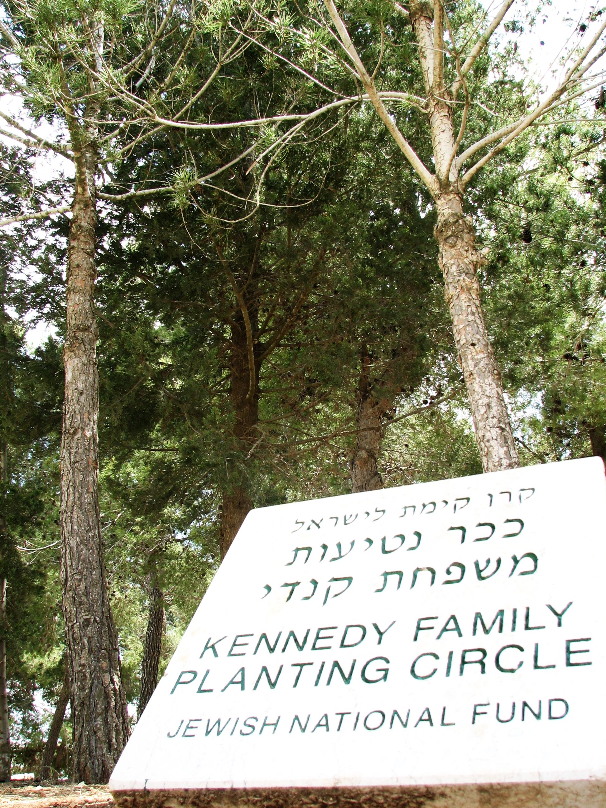 Kennedy Family Circle, Yad Kennedy, Jerusalem, Israel